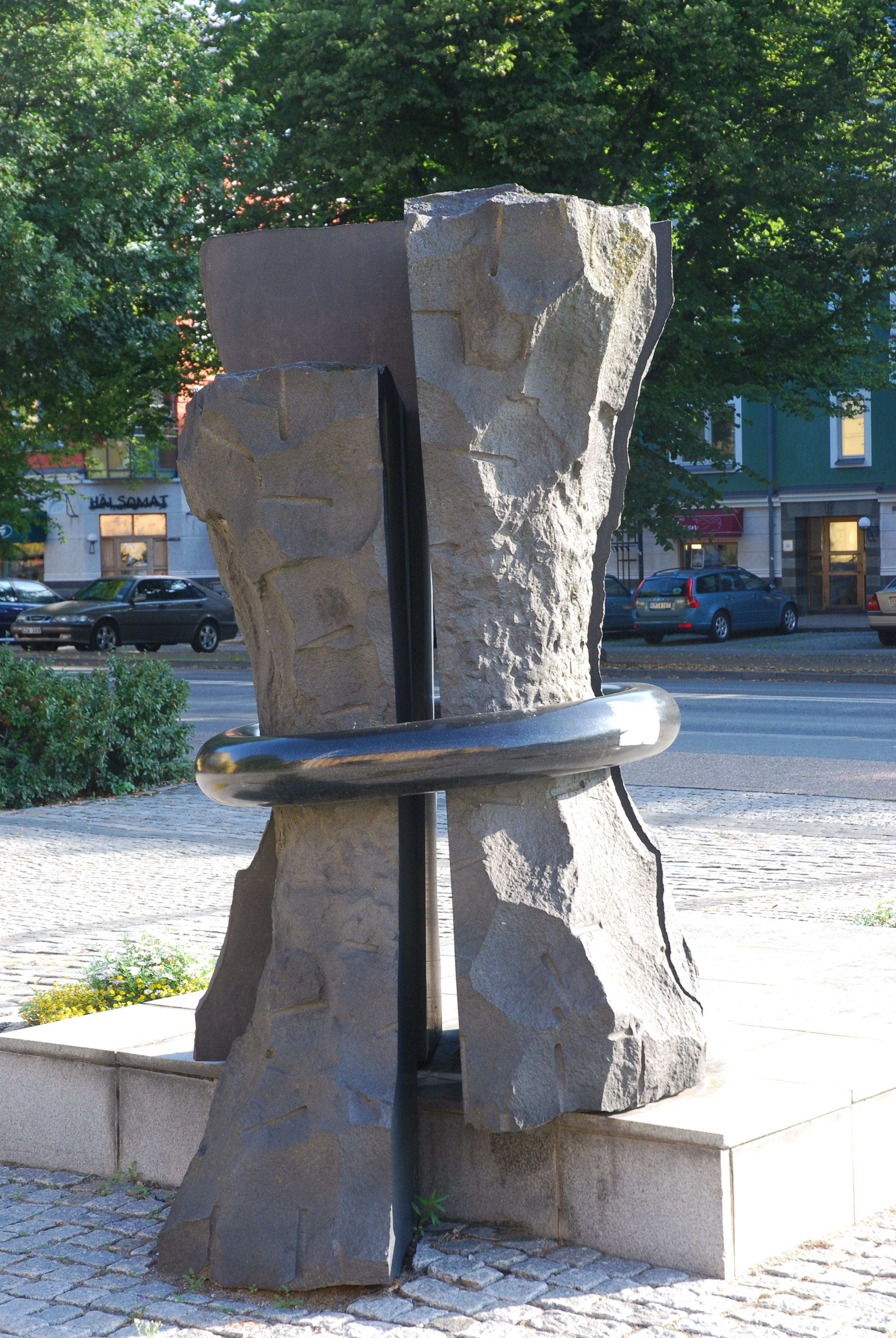 Takashi Naraha´s Kosmos, diabase ("black granite"), outside the provincial government´s office in Kristianstad, Sweden